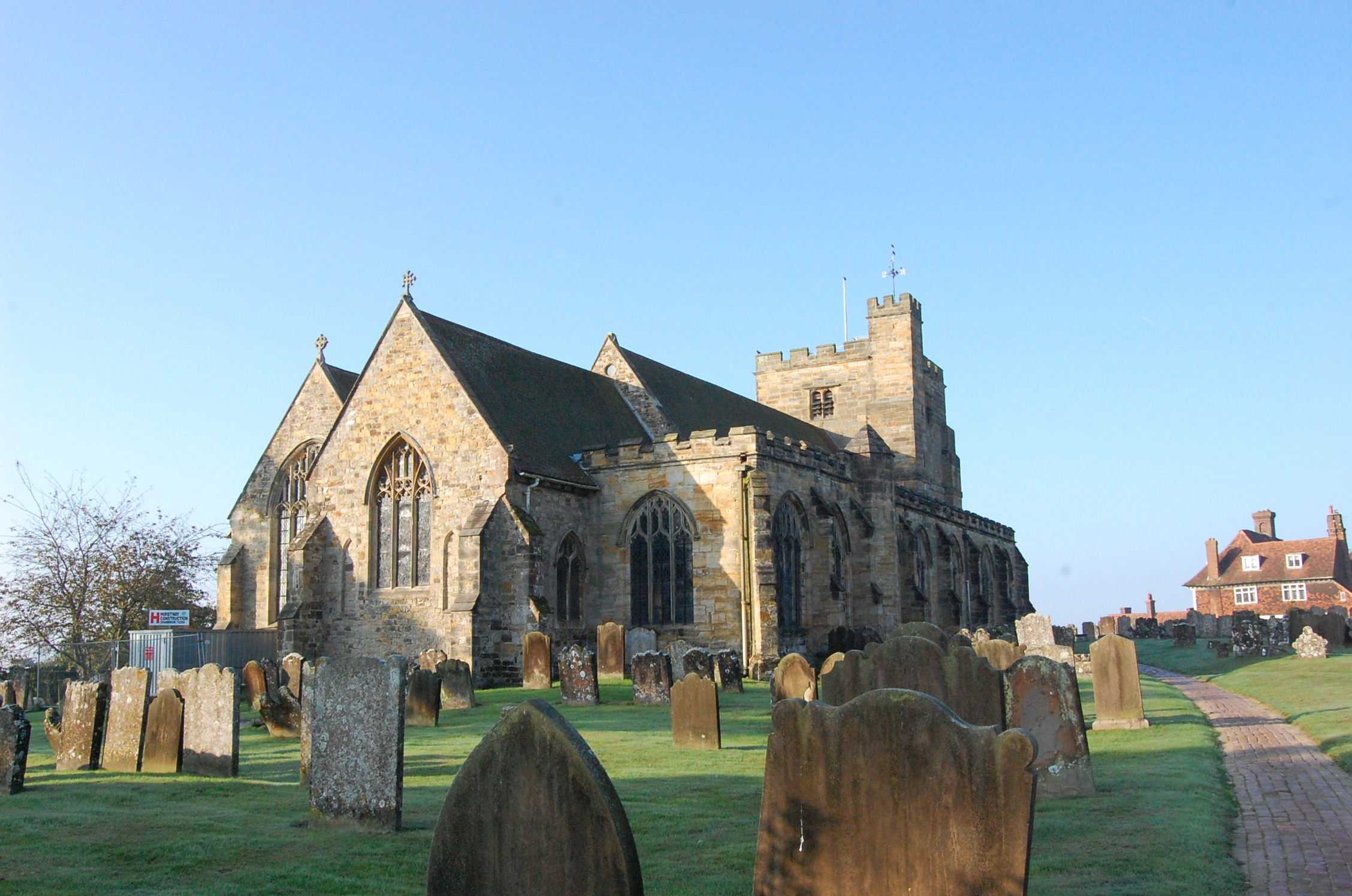 Dates from 12th Century and probably back to Saxon times. Much stained glass was destroyed by a bomb in World war II. The church contains a fine tomb to Sir Alexander Culpepper, plus brasses from the 15th Century. The view from the top of the tower is said to be very fine.